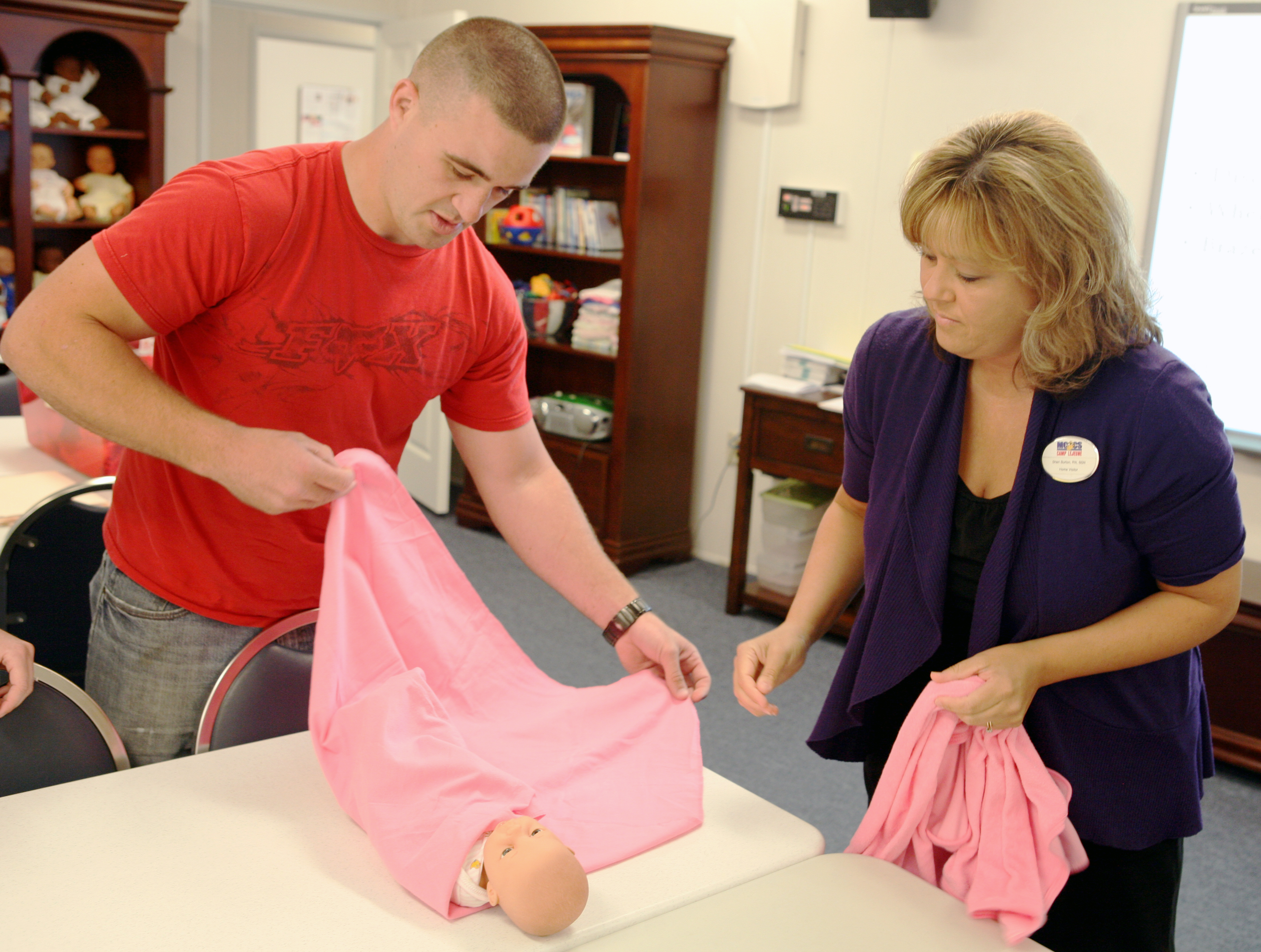 Cpl. Richard Sherin, a Casualty Cell clerk with II Marine Expeditionary Force, takes a shot at swaddling an infant during Baby Boot Camp, May 24, 2011, at the Midway Park Marine & Family Services Annex aboard Marine Corps Base Camp Lejeune, N.C. The expecting father took the class with many others to learn about taking care of their newborns once they leave the hospital.